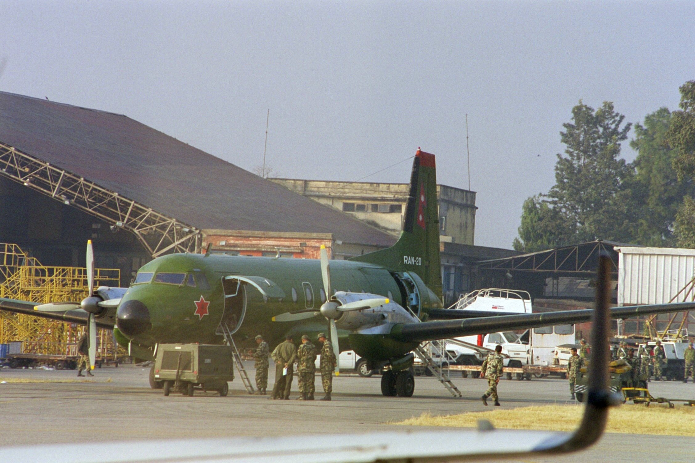 Nepalese Airforce in Kathmandu